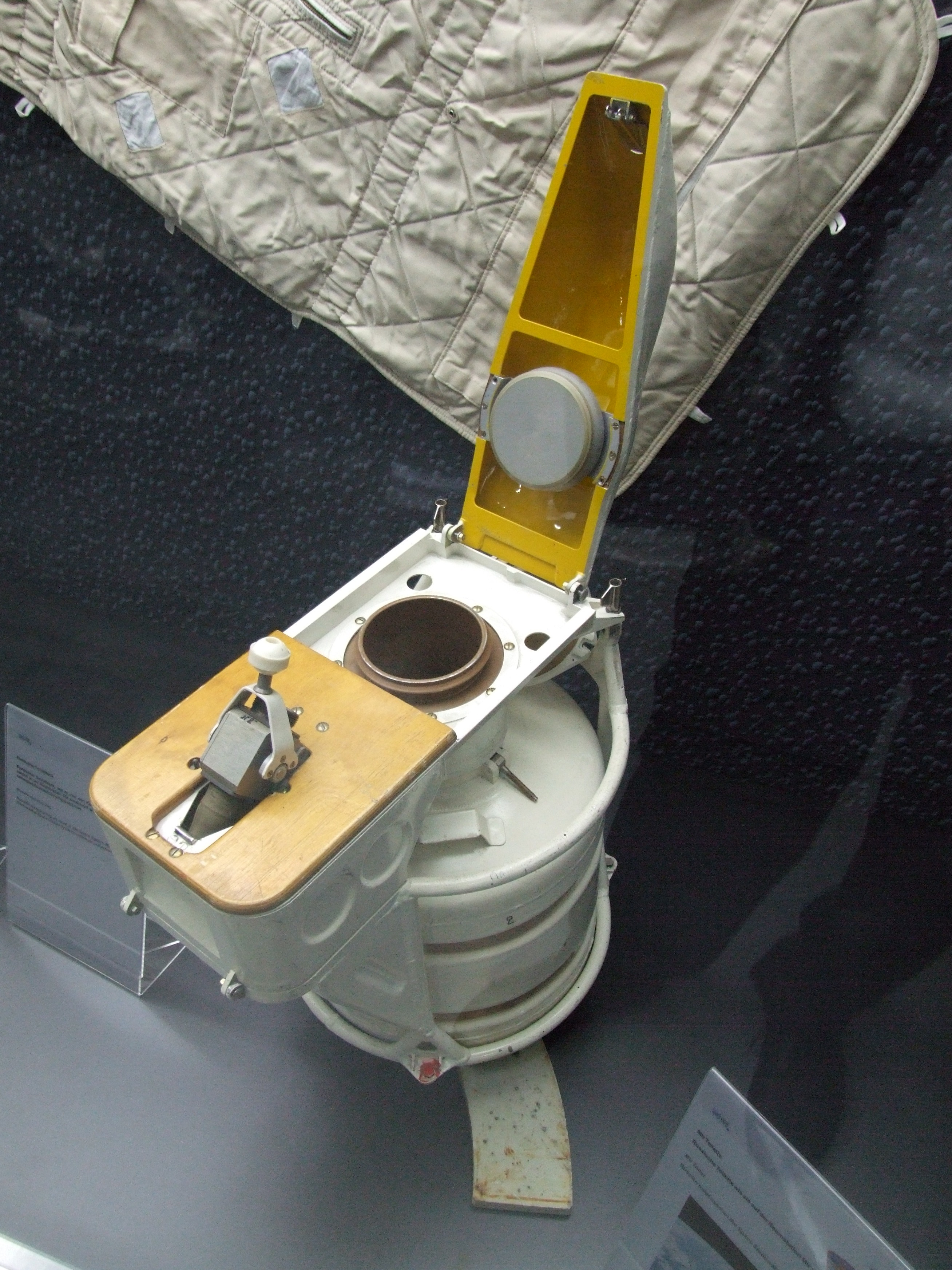 Russian toilet used in space station MIR, Technik Museum Speyer.